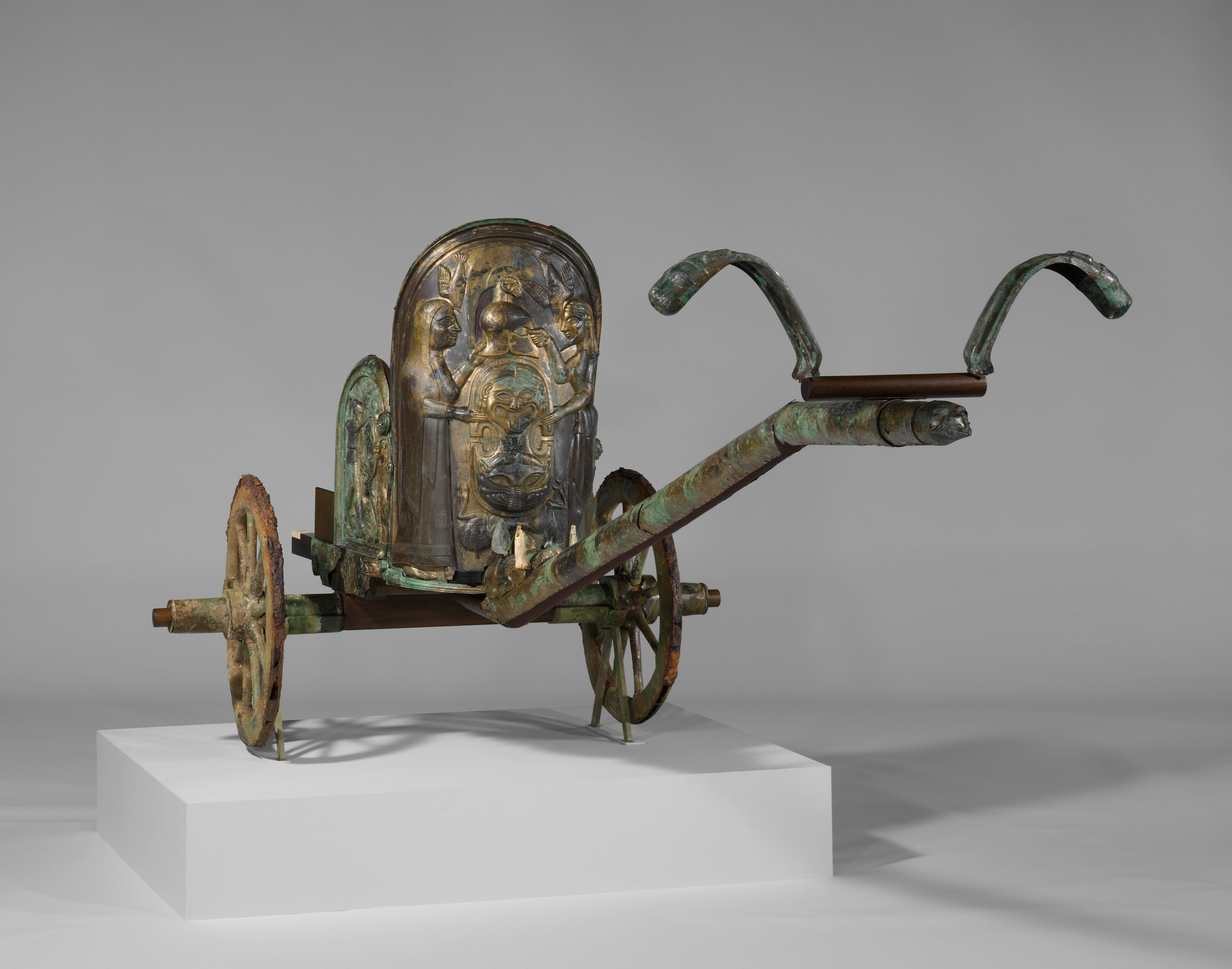 Etruscan; Chariot; Bronzes